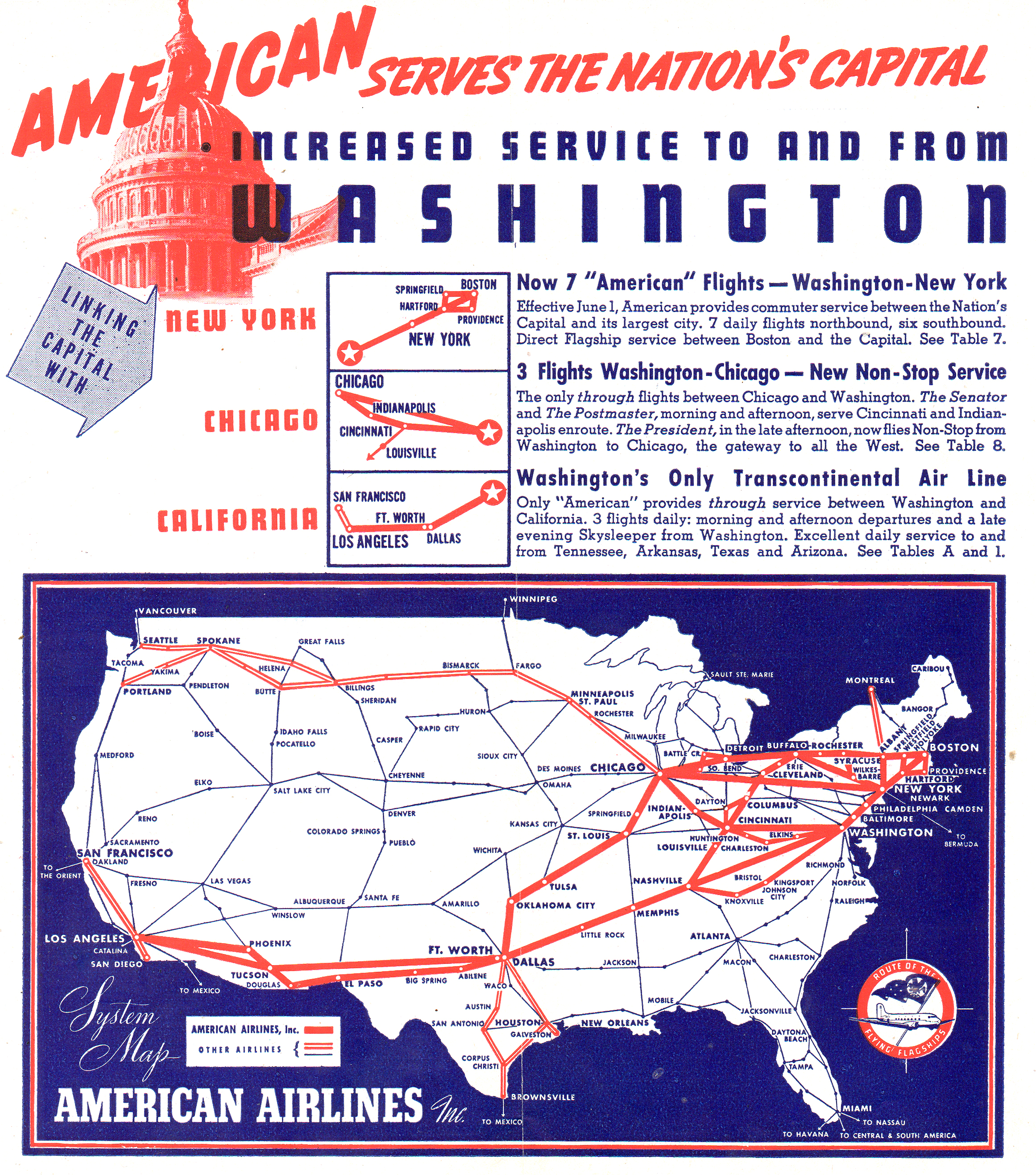 American Airlines System Map and services at Washington, D.C.